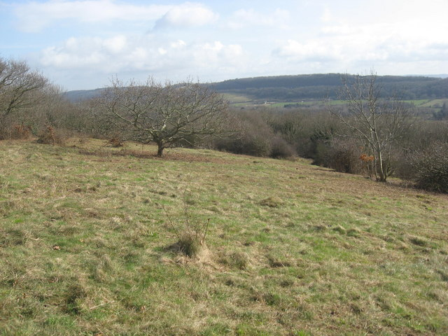 Limestone Upland on Walton Common